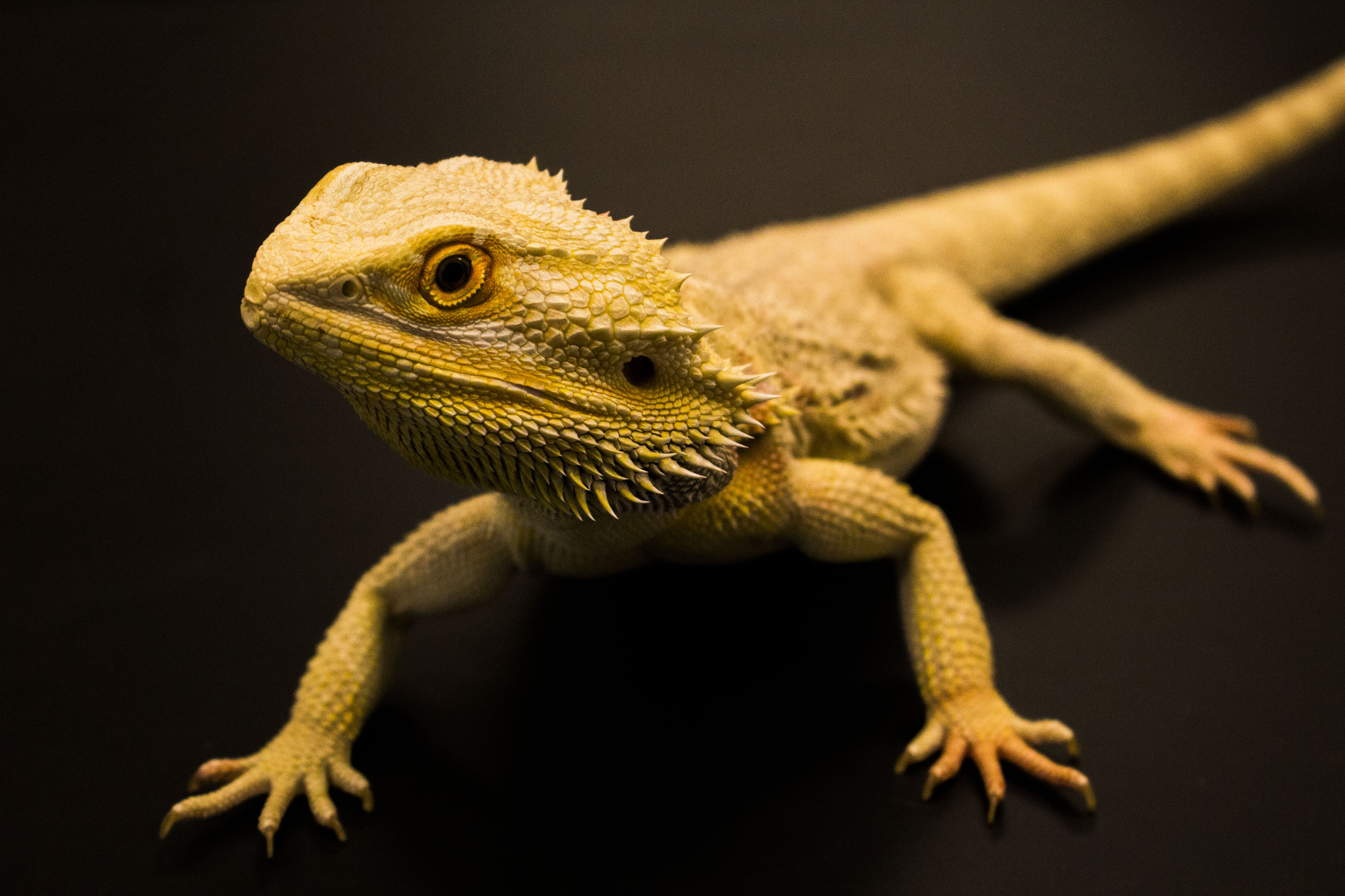 Bearded dragon in school science lab